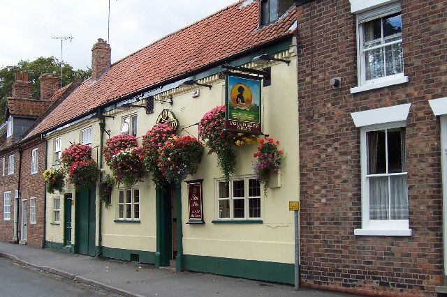 The Volunteer Arms. The Volunteer Arms, Barton-Upon-Humber, North Lincolnshire. Winner of Best Hanging Basket Competition 2004.